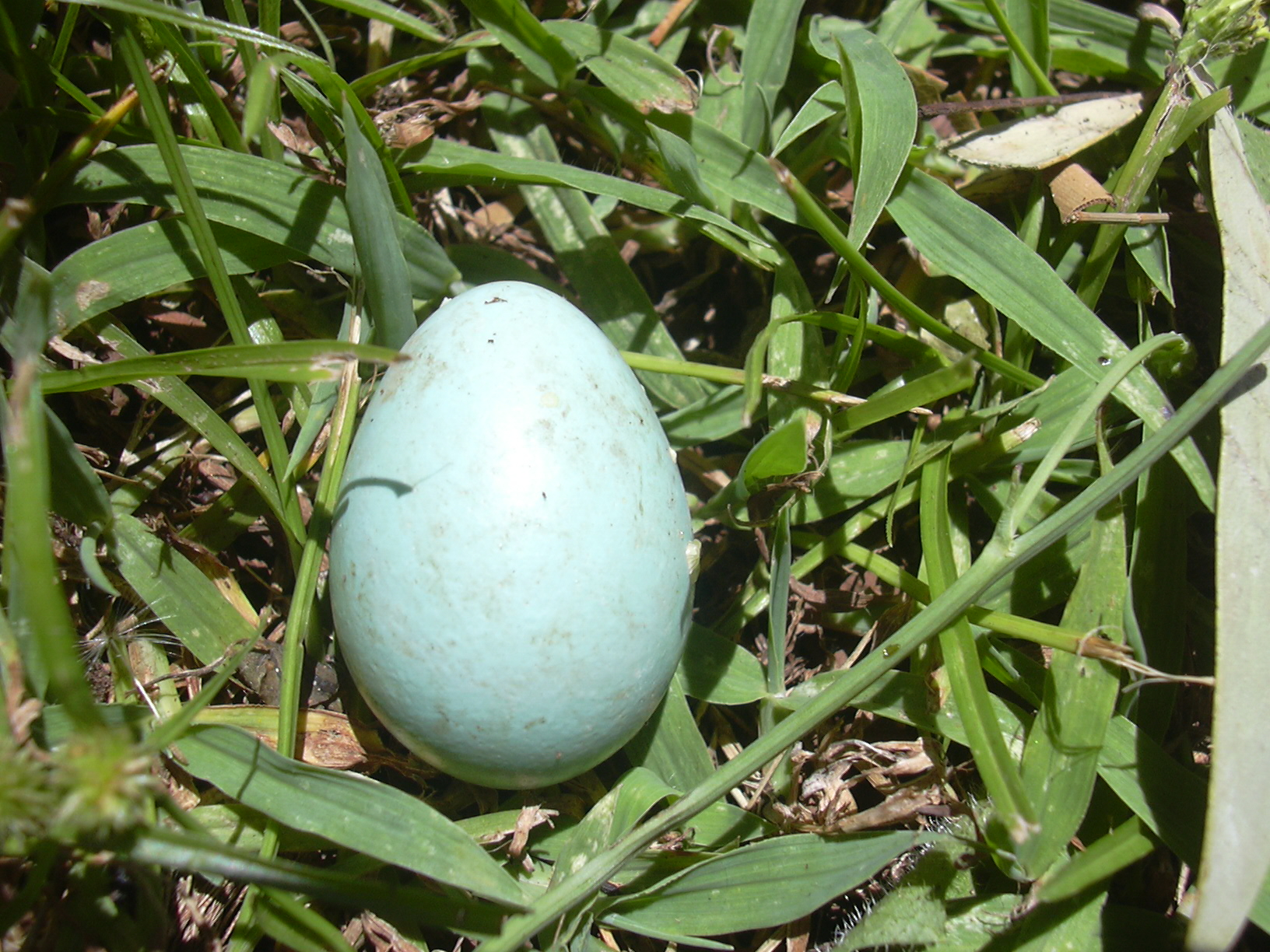 Pennisetum clandestinum (with Mynah egg). Location: Maui, Makawao